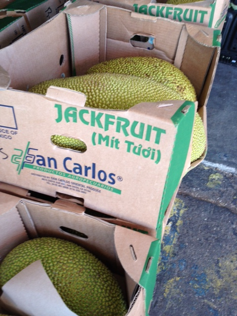 Box of jackfruit for sale in San Diego, imported from Mexico. The box is labeled in English and Vietnamese.